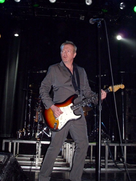 Performing with the Gang of Four at the Metro in Chicago on 11 February 2011